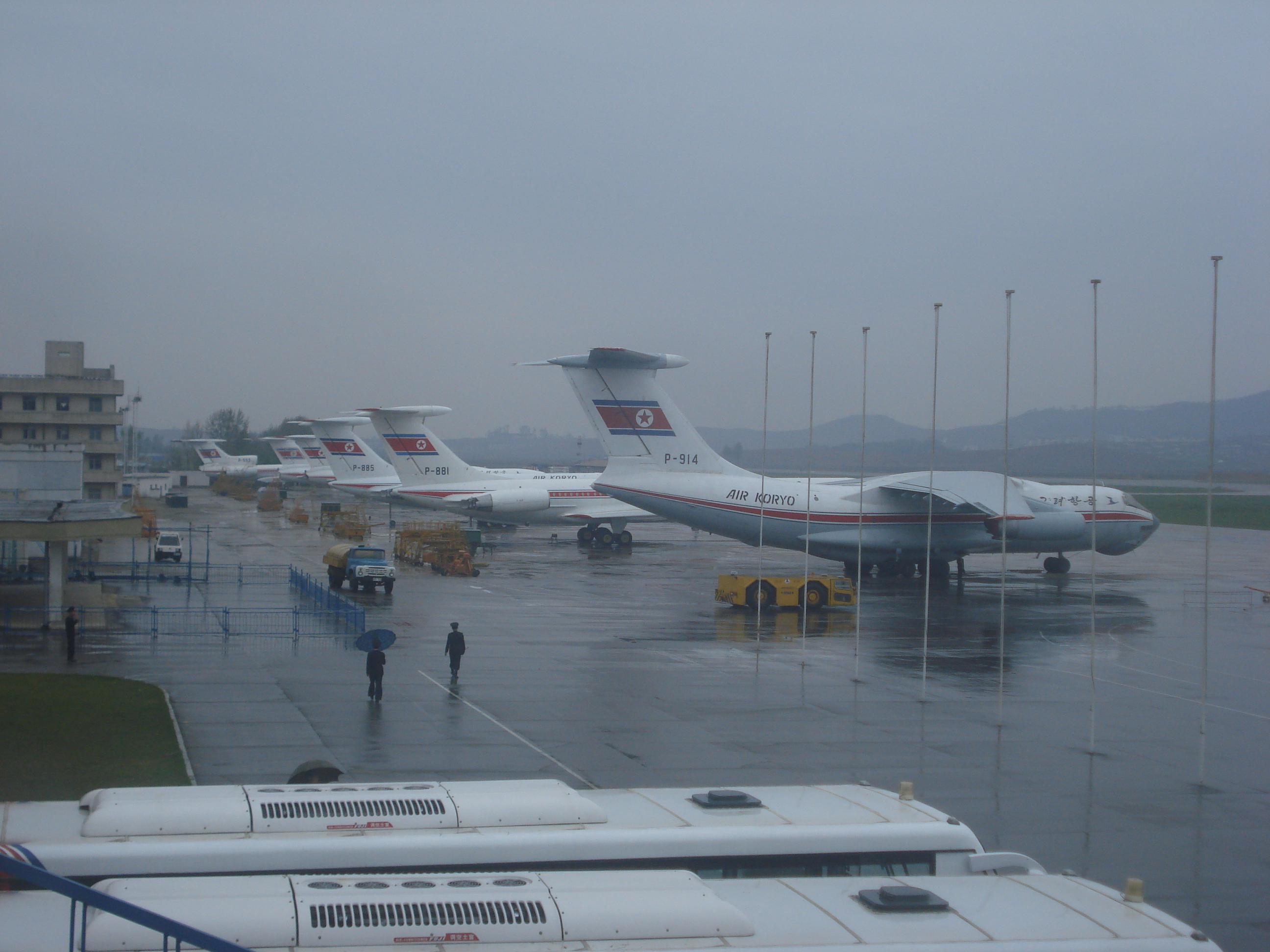 Air Koryo aircraft at Pyongyang ramp